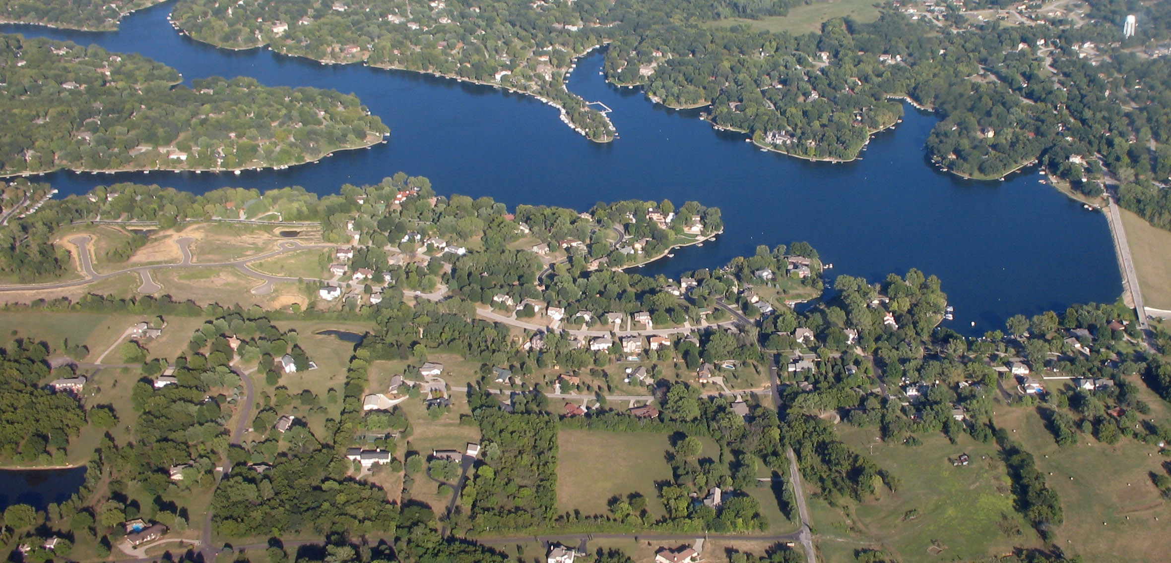 Weatherby Lake, Missouri from west in September 2007. Photo by poster.